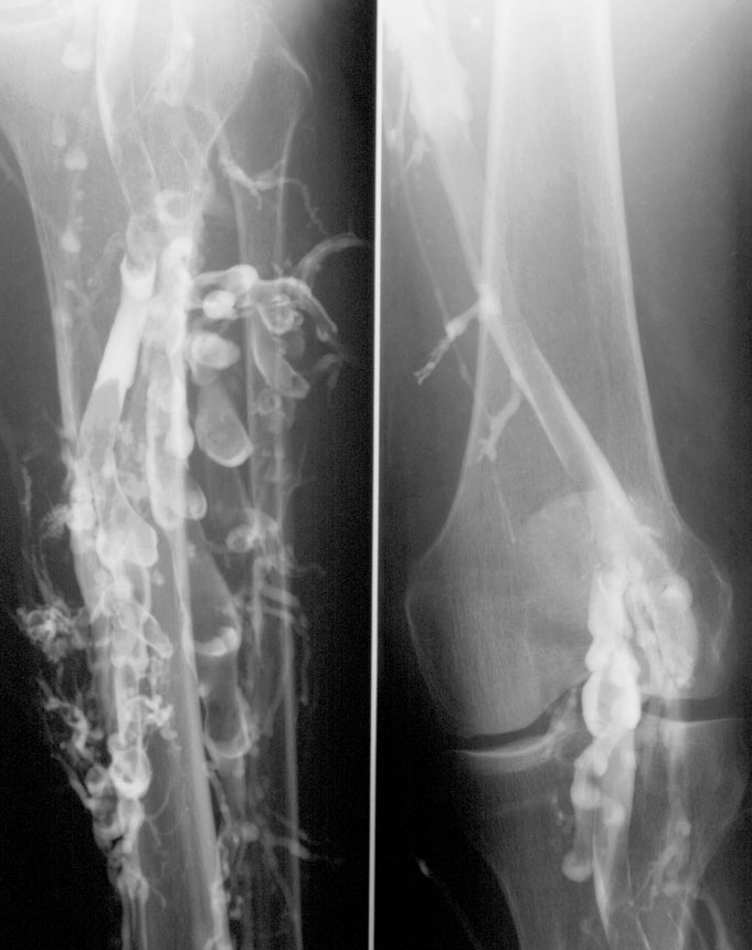 After injecting contrast medium into a vein on the foot, the various vein groups on the lower leg and knee become visible in fluoroscopy. Dilatations of the veins are limited by valves. It can be seen in large sections that the contrast medium does not fill the entire vein, but rather flows around long-stretched thrombi.